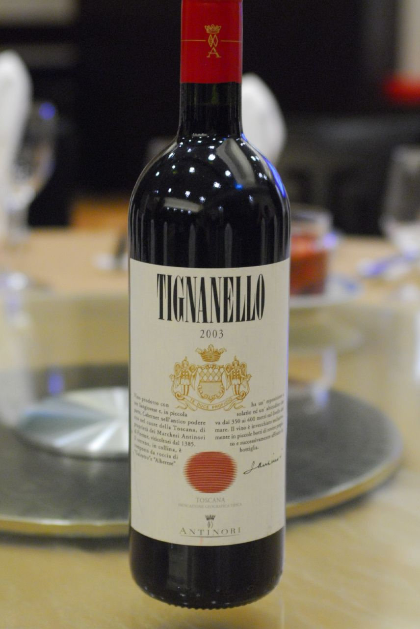 Italian Antinori's flagship Super Tuscan wine